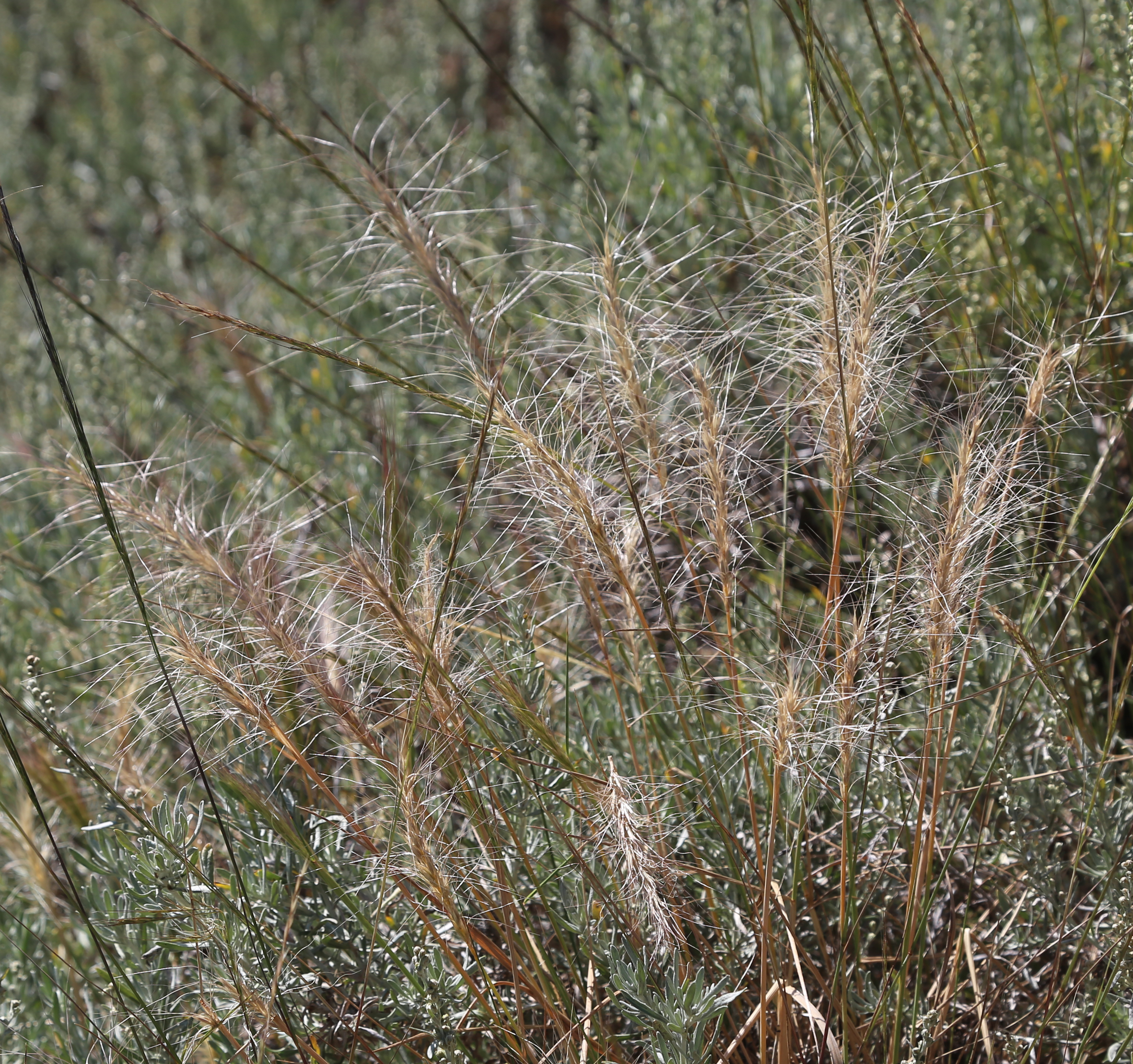 Squirrel-tail grass (Elymus elymoides) clump, with spikes in wide, pale, late-season form. Near trail into Little Lakes Valley, John Muir Wilderness, Sierra Navada USA.